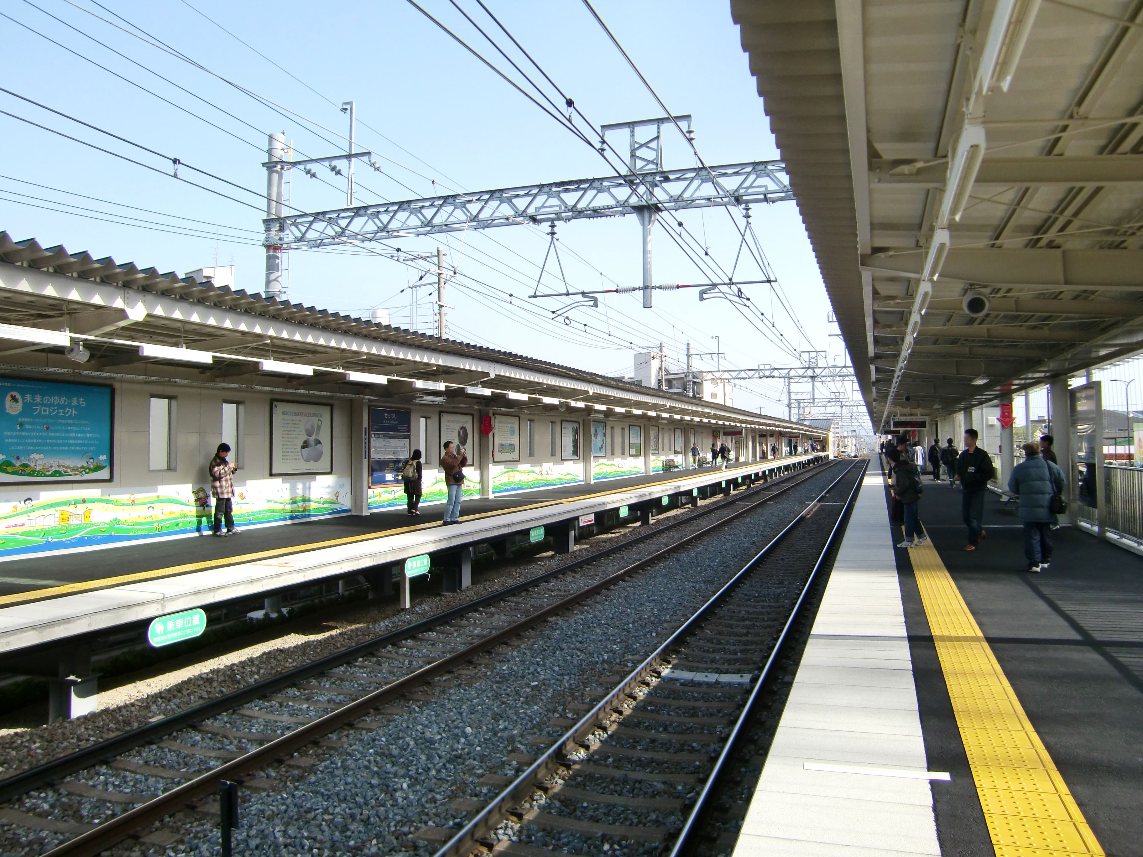 Hankyu Railway Settsu-shi Station Platform,Settsu-City Osaka Japan.